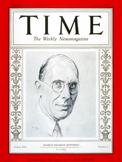 Time magazine cover 9 January 1933. Title: "Charles Franklin Kettering".